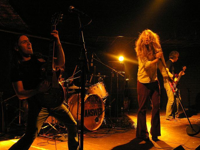 The Answer at a gig in the Netherlands.